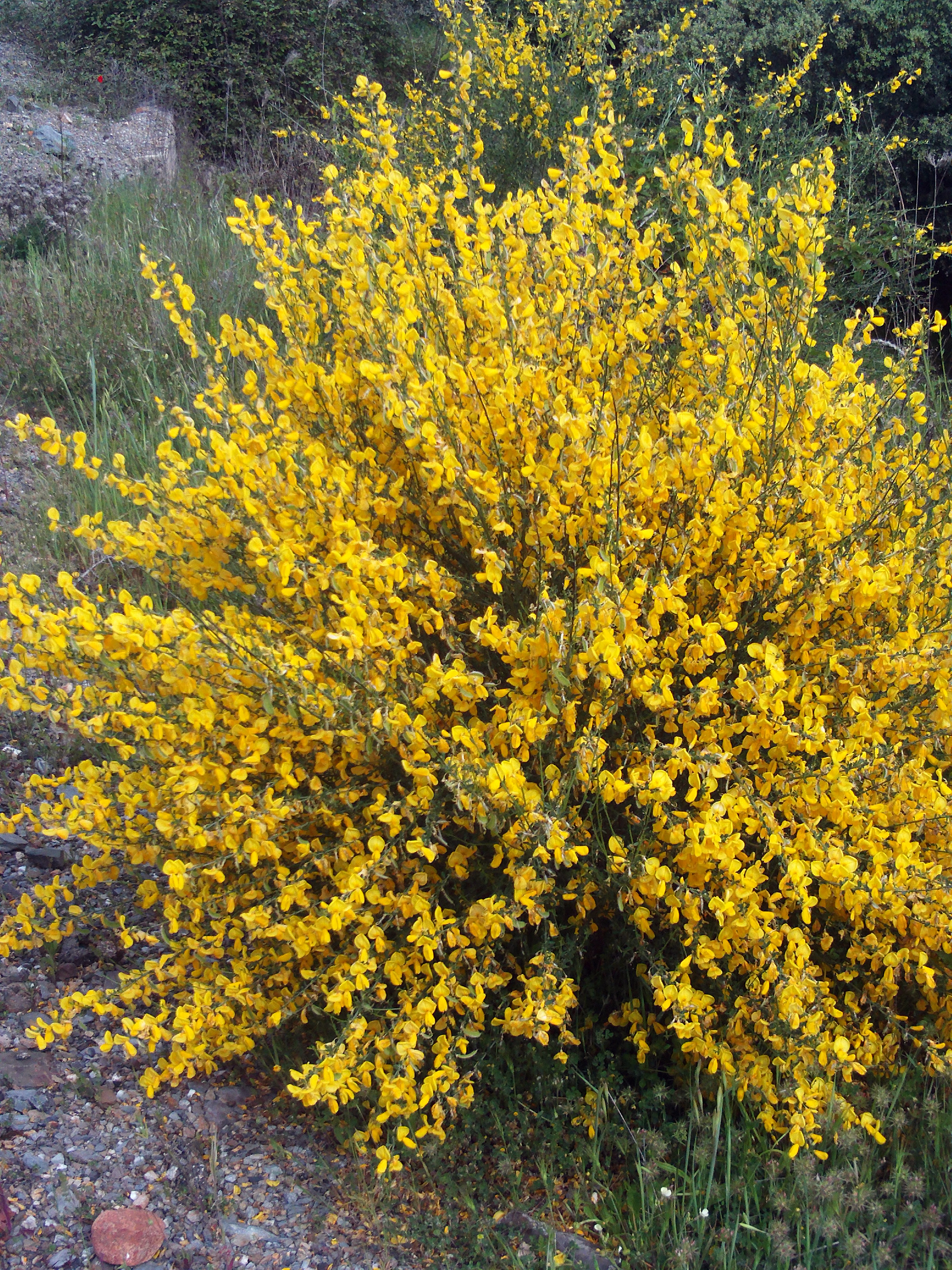 Cytisus scoparius habit, Sierra Madrona, Spain